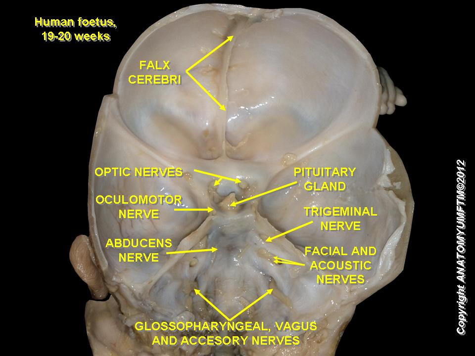 Anatomical dissection